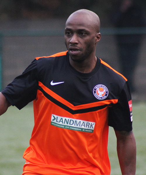 Roscoe D'Sane playing for Walton Casuals in 2016.